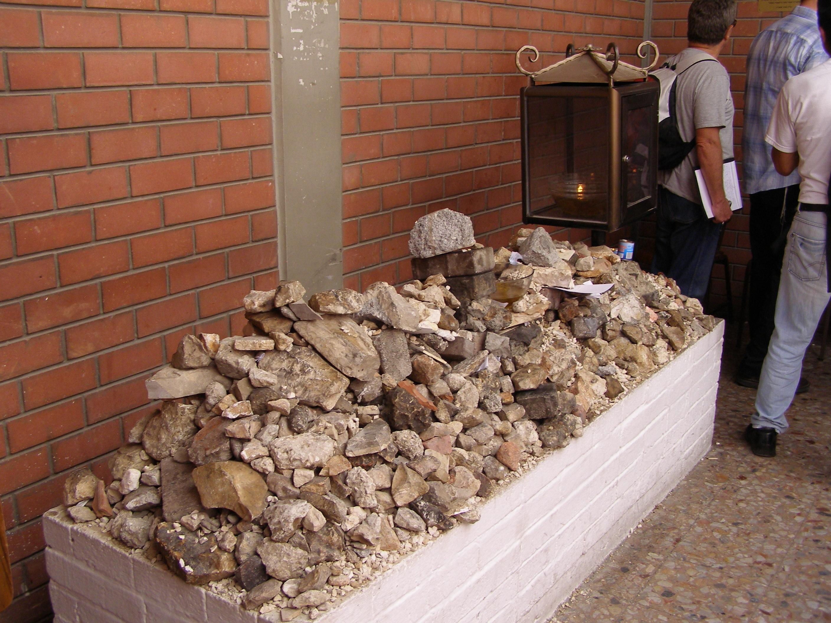 Tomb of Goor Rebe, Pinchas Menachem Alter, Jerusalem